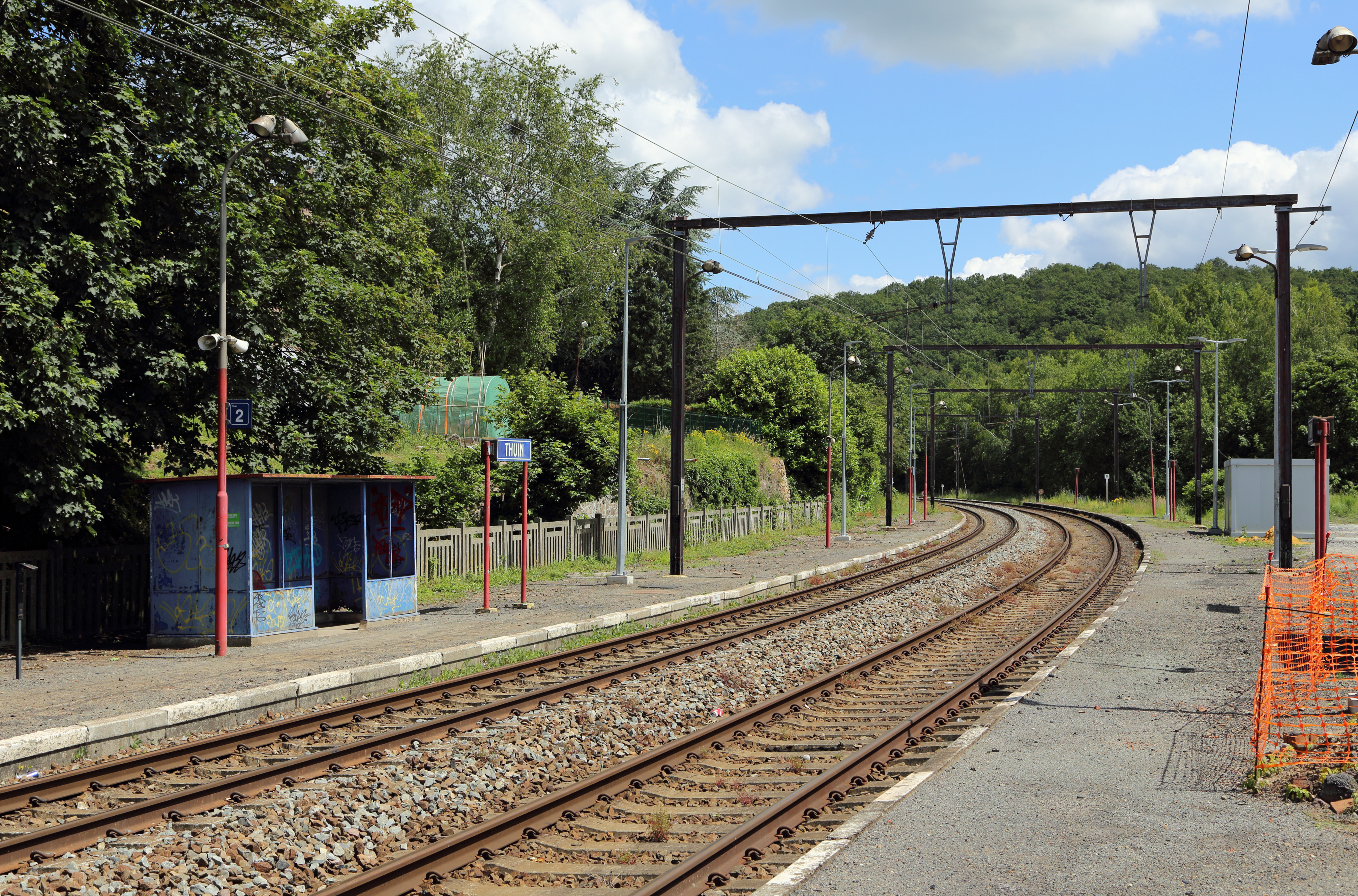 Train station of Thuin (Belgium): platforms and tracks